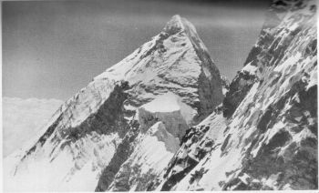 The main peak of Nanda Devi, 25,645 feet, climbed by Tilman and Odell in 1936, seen from the ‘Second Step’, Nanda Devi East, 2nd July 1939